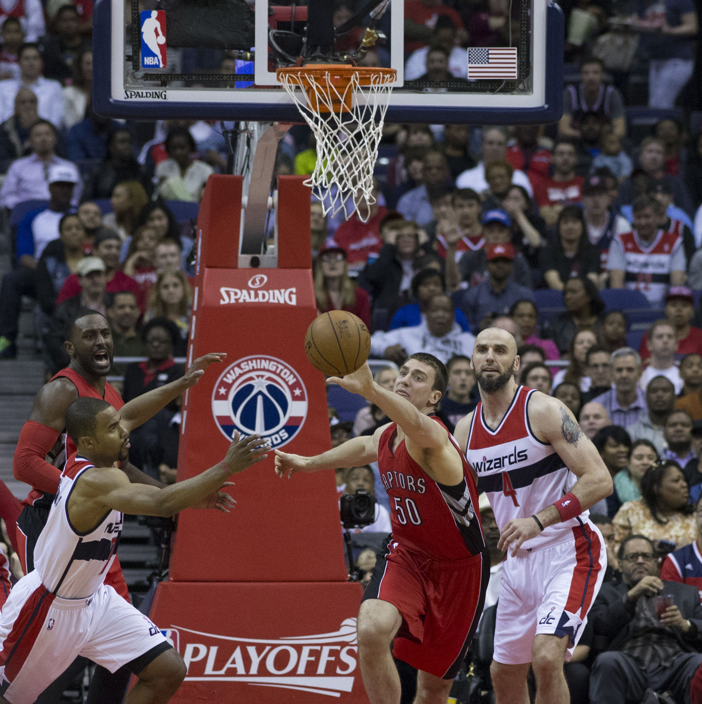 Toronto at Washington 04/26/15